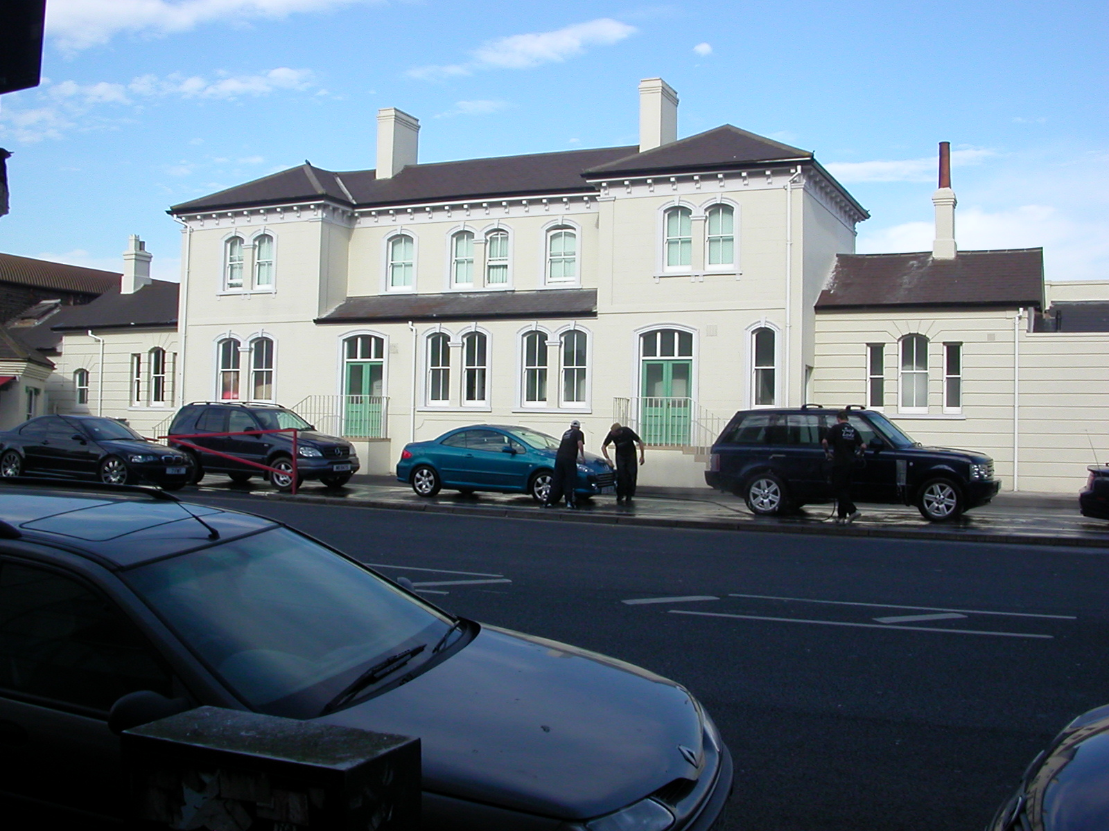 View of the former station building at Hove, now a car wash. Photographed on 17th February 2007.